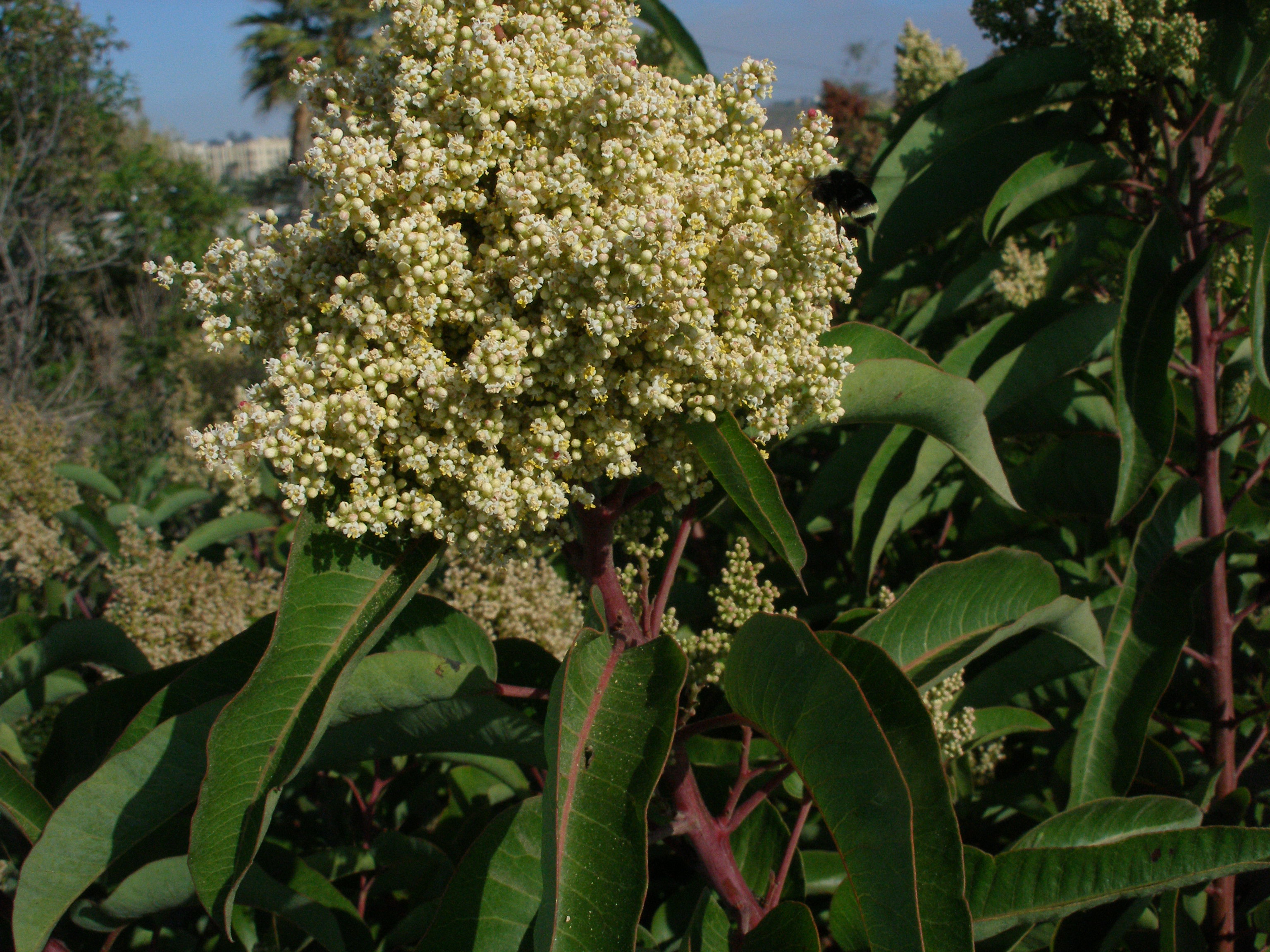 Malosma laurina — Laurel sumac, flowers. Note the small bumblebee on the right side of the cluster of flowers. This photo was taken at the Ballona Wetlands in Los Angeles, California.